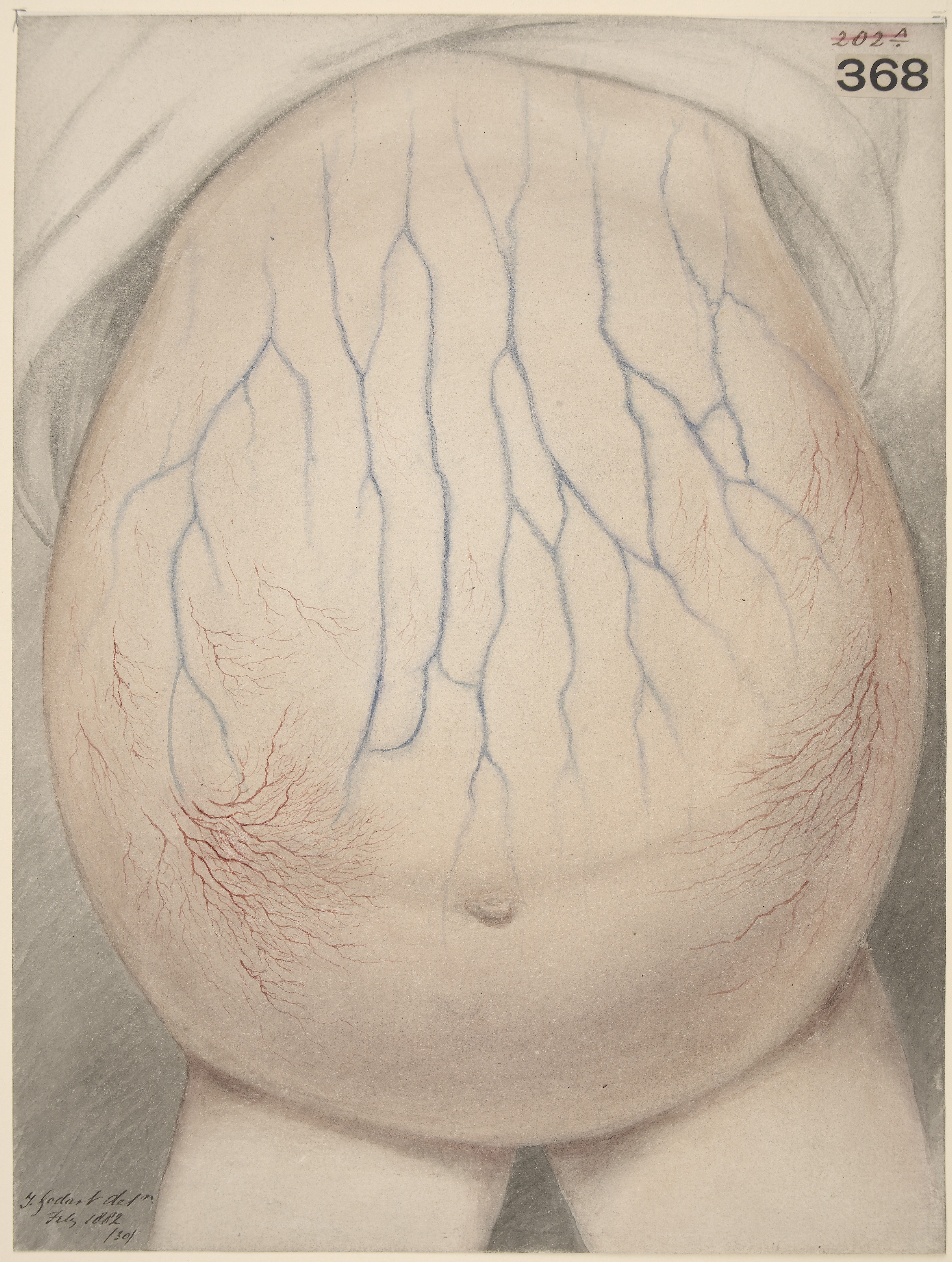 Watercolour drawing of the abdomen of a child affected with ascites. The venous radicles and the small arterioles are like affected. Medical Photographic Library Keywords: Godart, Thomas